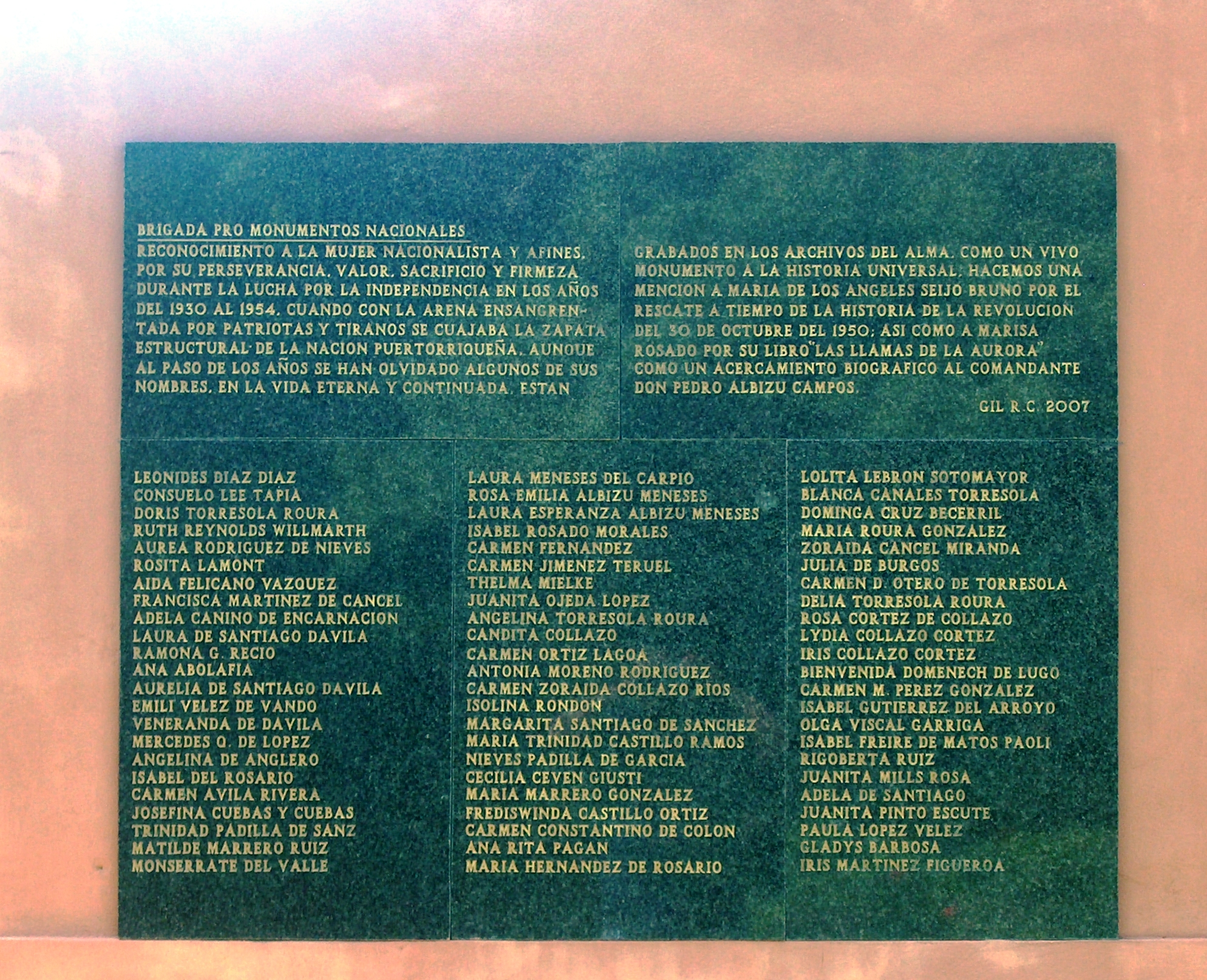 Plaque on Jayuya Monument in honor of the Puerto Rican women participants in the 1950 Jayuya Uprising — a Nationalist revolt in Puerto Rico. The Monument is located in the Cruzados' subsection of the Aguilar Ward in Mayagüez, southwestern Puerto Rico.